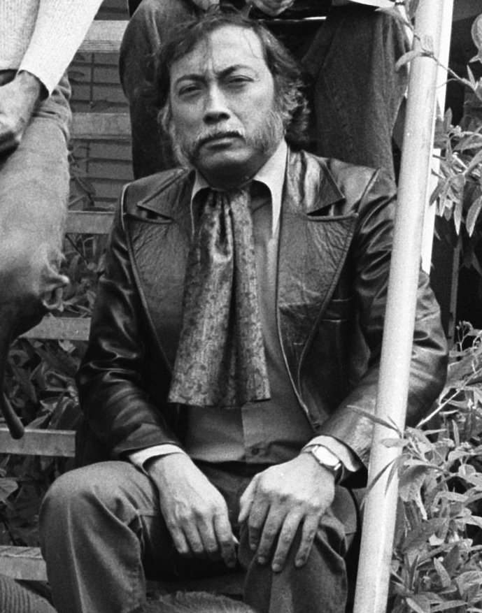 Dutch jazz pianist Rob Pronk (1975)